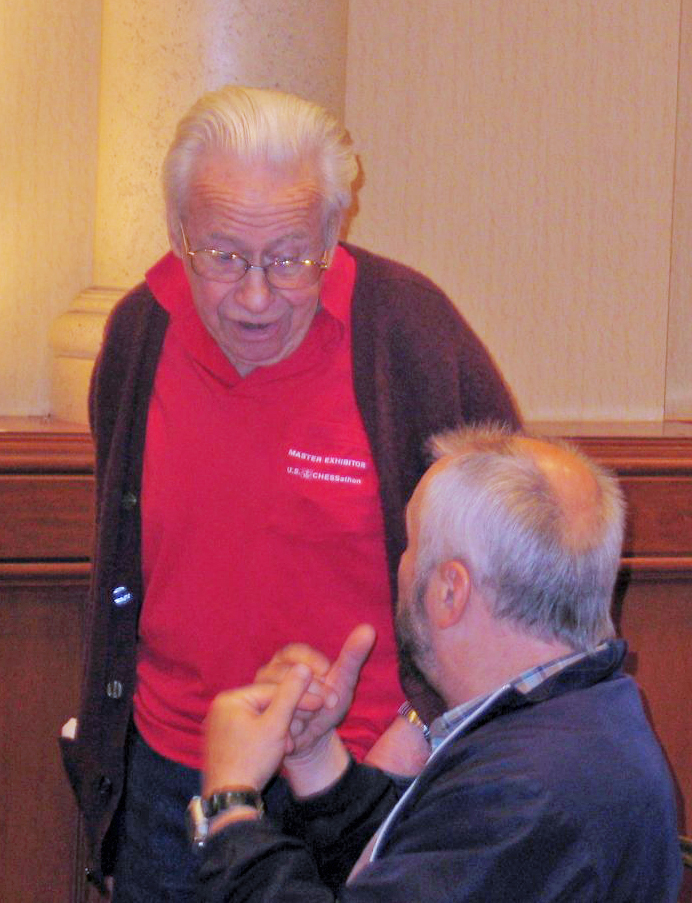 Grandmaster Arthur Bisguier did commentary on games from the event during each round. Las Vegas, 2009 National Open.